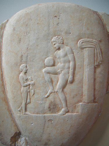 Ancient Greek football player balancing the ball. Part of a marble grave stele, found in Piraeus, 400-375 BC. Item (NAMA) 873 of the National Archaeological Museum, Athens. Part of a grave stele, made of pentelic marble. It was found in Piraeus. Only part of the shaft of the stele survives, adorned by a relief loutrophoros. The figure of a nude youth practicing with a ball in the palaestra is depicted in low relief on the belly of the vase. His folded himation can be seen on a pillar behind him. The youth is watched by his young servant holding an aryballos and a strigil.